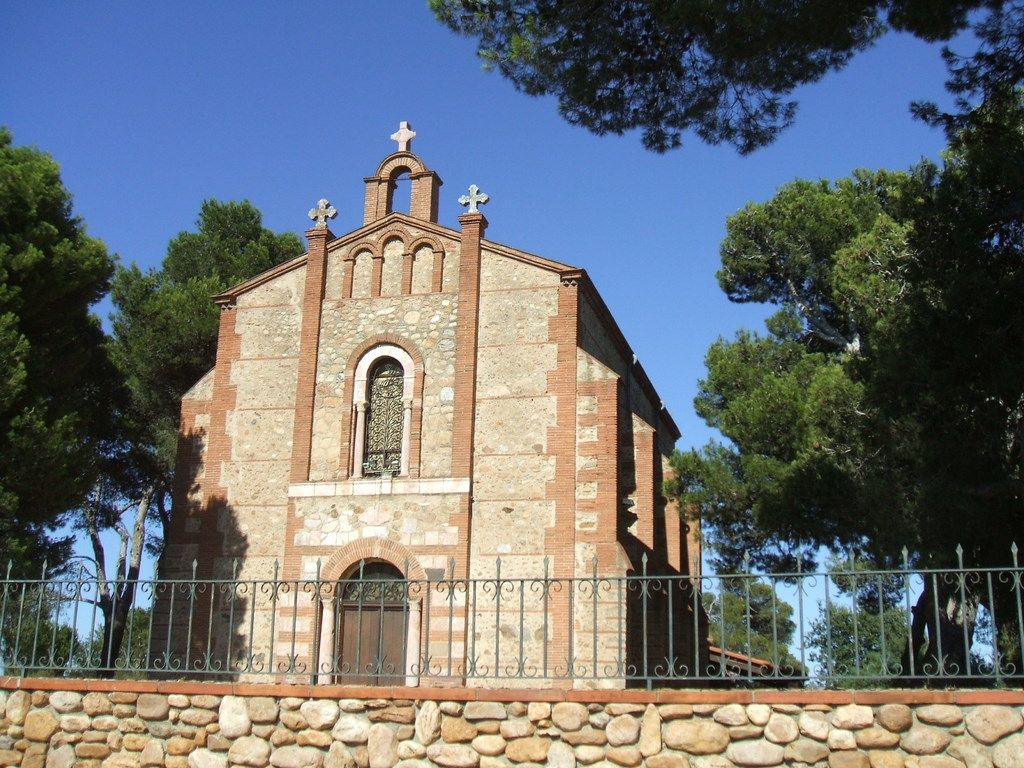 Saint-Nazaire (département of Pyrénées-Orientales, Languedoc-Roussillon région, France) : chapel of Notre-Dame de l'Arca (built in 1890)